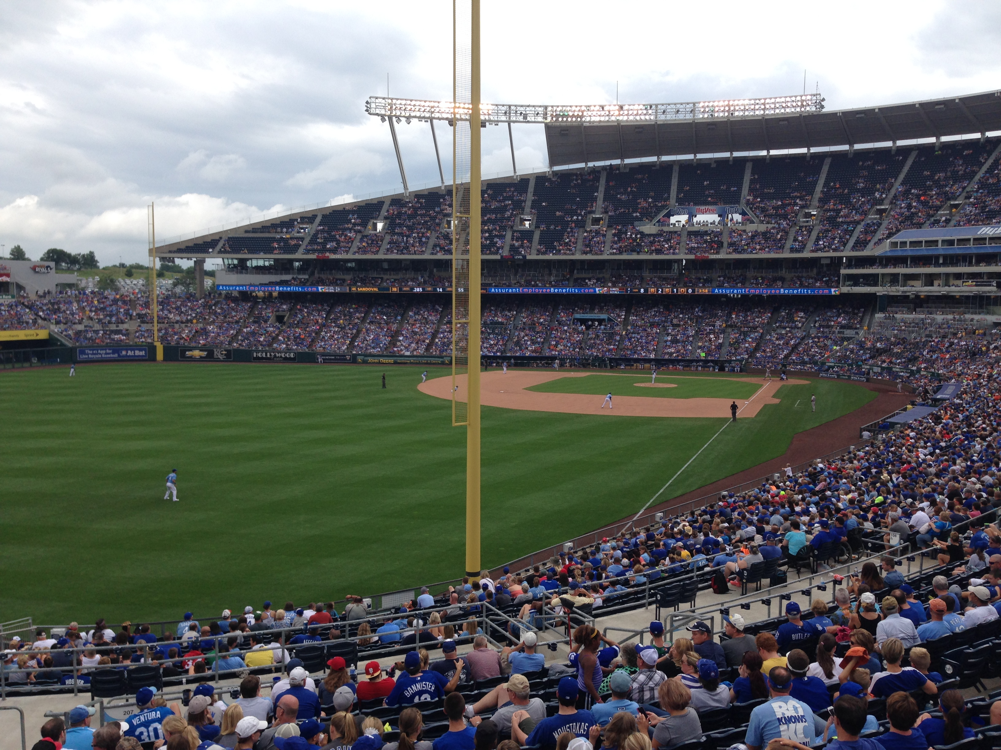 Giants vs Royals, August 10, 2014